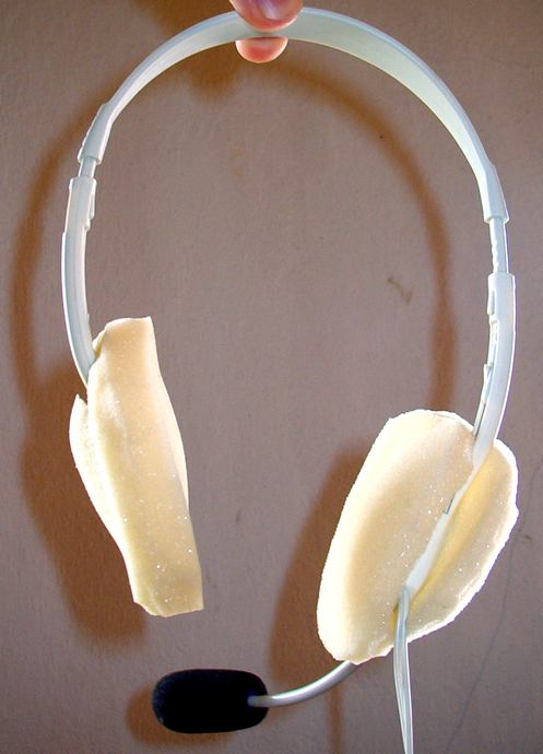 An illustration for "skumgummi" in Swedish WikiPedia.